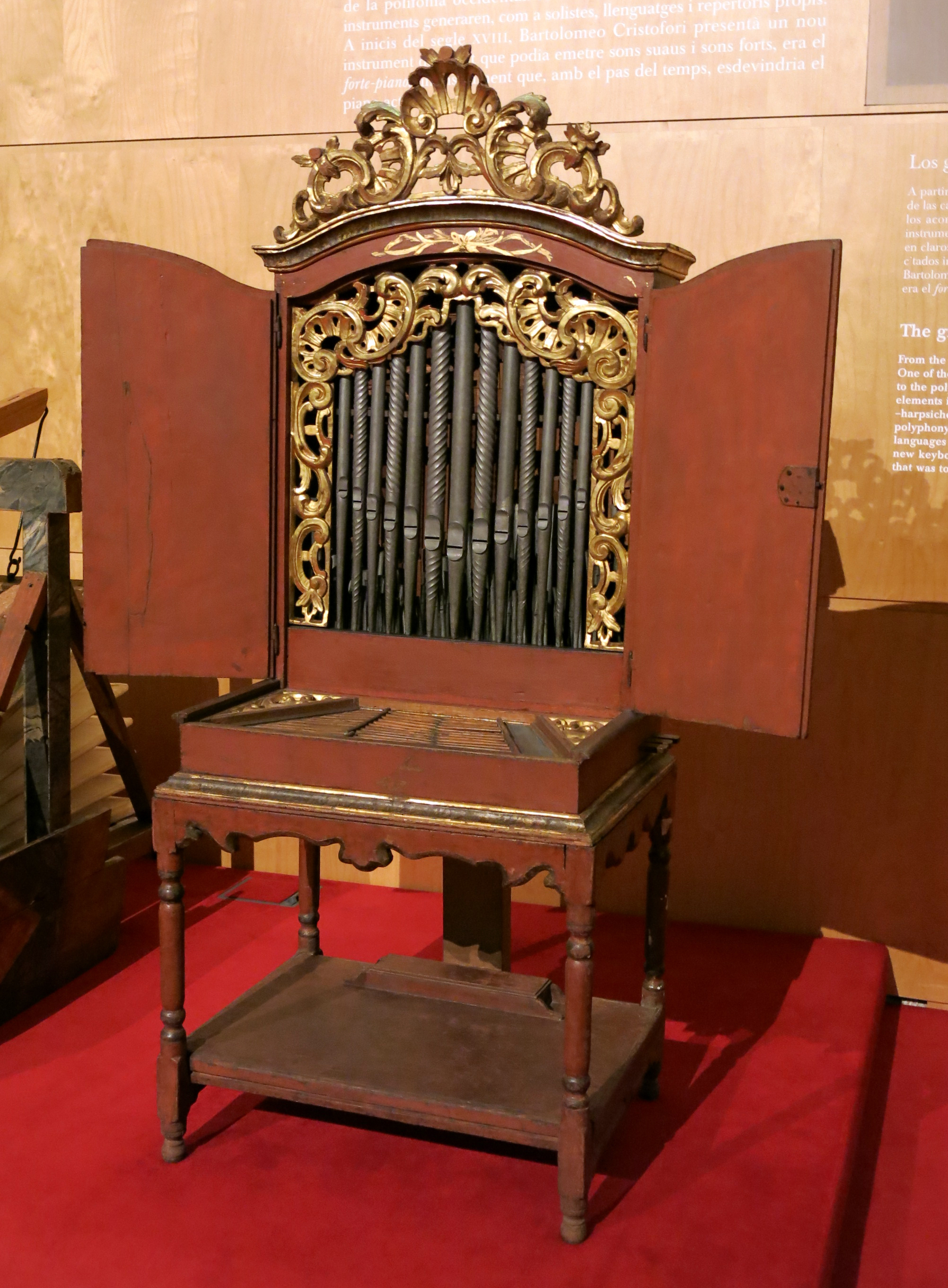 Psalter-organ, by Josep Pujol MDMB 54(?): Orgue saltiri, Josep Pujol, Manresa, ca.1765 / 1700-1760